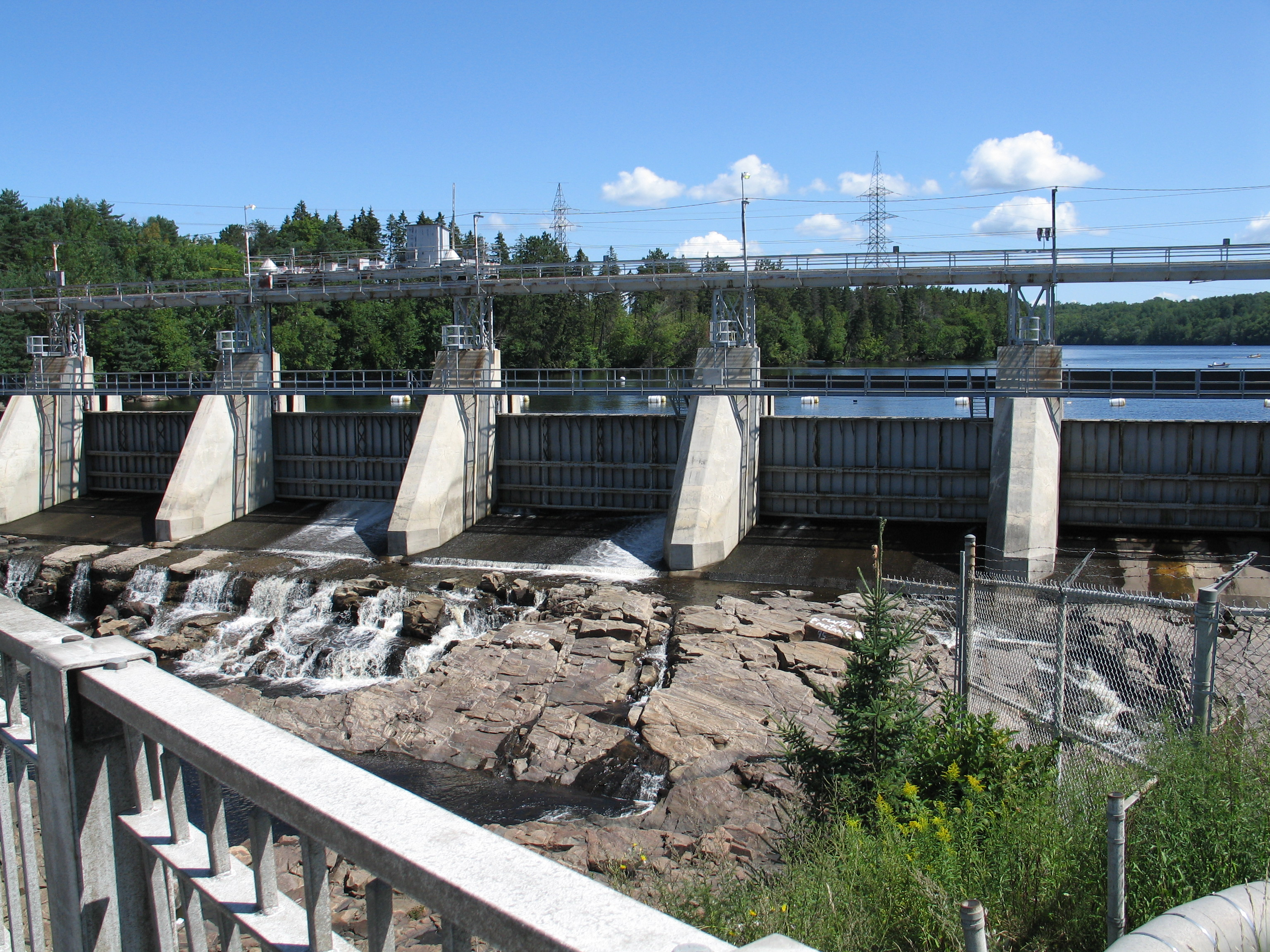 Almaville spillway in Shawinigan, Quebec.